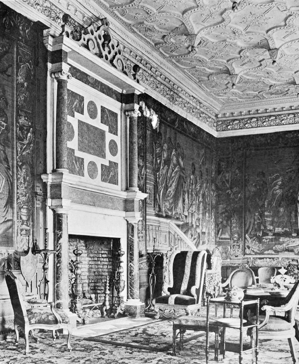 Photo of the State drawing room at Bramshill House.